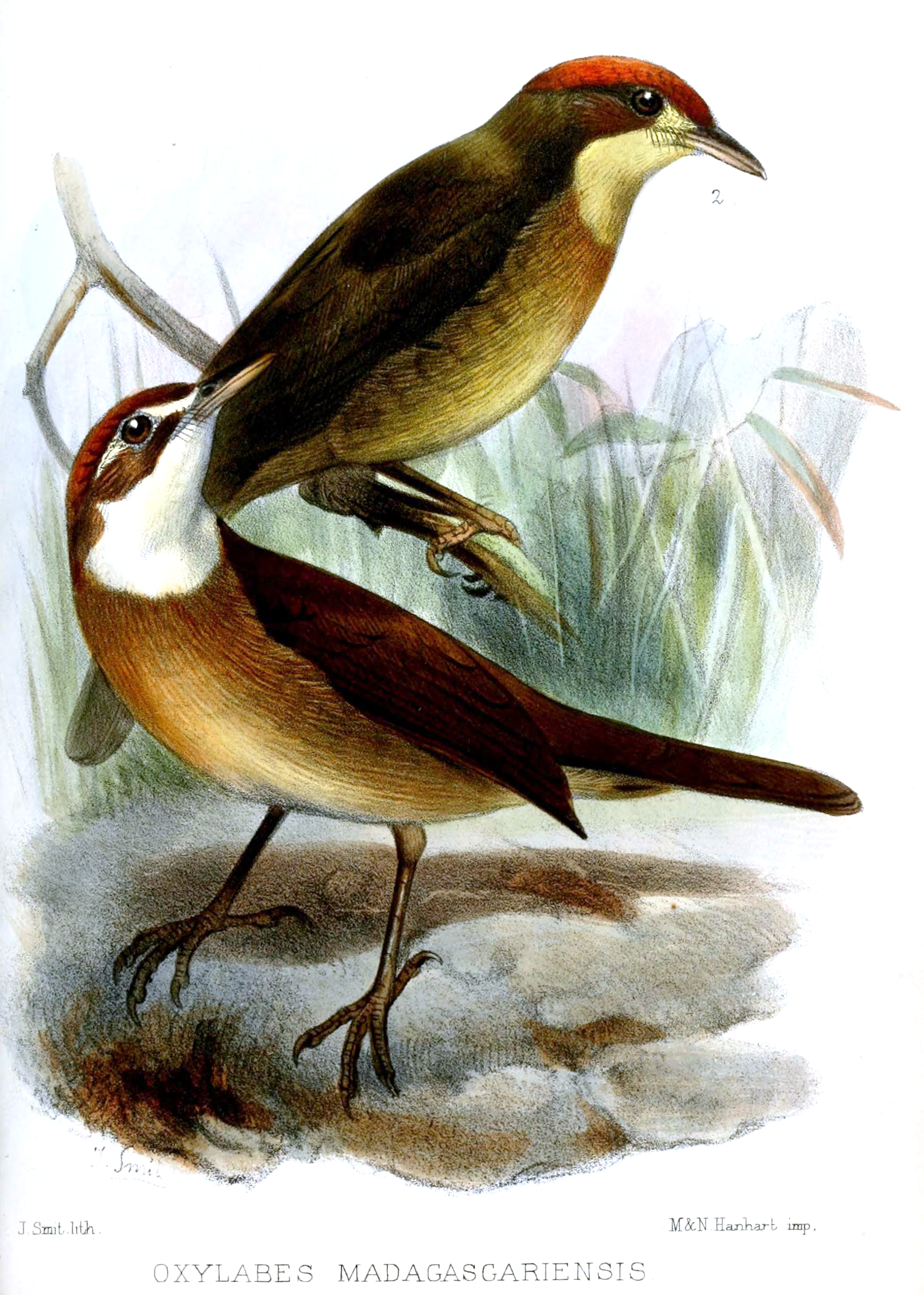 White-throated Oxylabes, juvenile (above) and adult male (below)